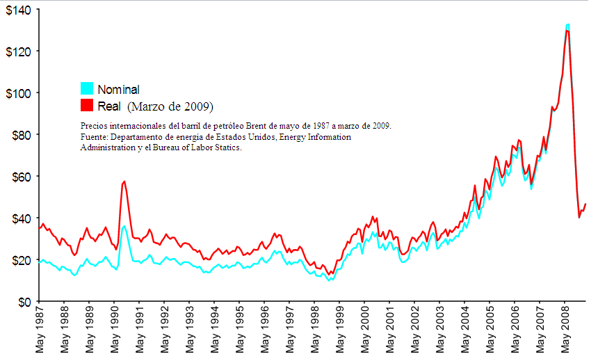 In the process of creating Image:Oil Prices 1861 2007.svg, I realized what an incredible wealth of information is available on the Energy Information Administration's web site. The 1861–2007 graph uses yearly averages, and I couldn't think of a really satisfying way to incorporate the price jumps of the past couple of months. Anyway, I think it's alright for a graph of 150 years of history to wait until the year's end to incorporate its data. Instead, I've created this graph, which uses all available monthly average Brent spot prices from this EIA spreadsheet and the United States Consumer Price Index for All Urban Consumers (CPI-U), seasonally adjusted, from here (not a direct link; you'll have to query it yourself). The monthly numbers and limited date range give good detail, and coverage up to April 2008 shows the recent price jumps. It will be about a month before I can add May 2008, because it takes a little while for the Bureau of Labor Statistics to compile the CPI for the previous month. I have no artistic talent whatsoever, so I know the color choices aren't great, but I have no eye for this stuff. I liked the blue and orange used by the 1861–2007 but I didn't want to use the same ones over again. I just chose a pair of RGB complementary colors. I am not married to this scheme; I'm happy to discuss alternatives. It's easy for me to make changes. I will probably make more graphs from EIA data in the future. It's getting easier to work with SVG, though I know I still have a lot to learn.